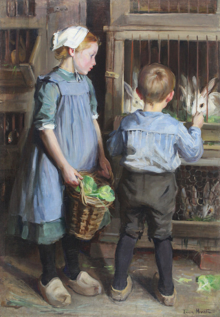 Laura Muntz Lyall - Children Feeding the Rabbits